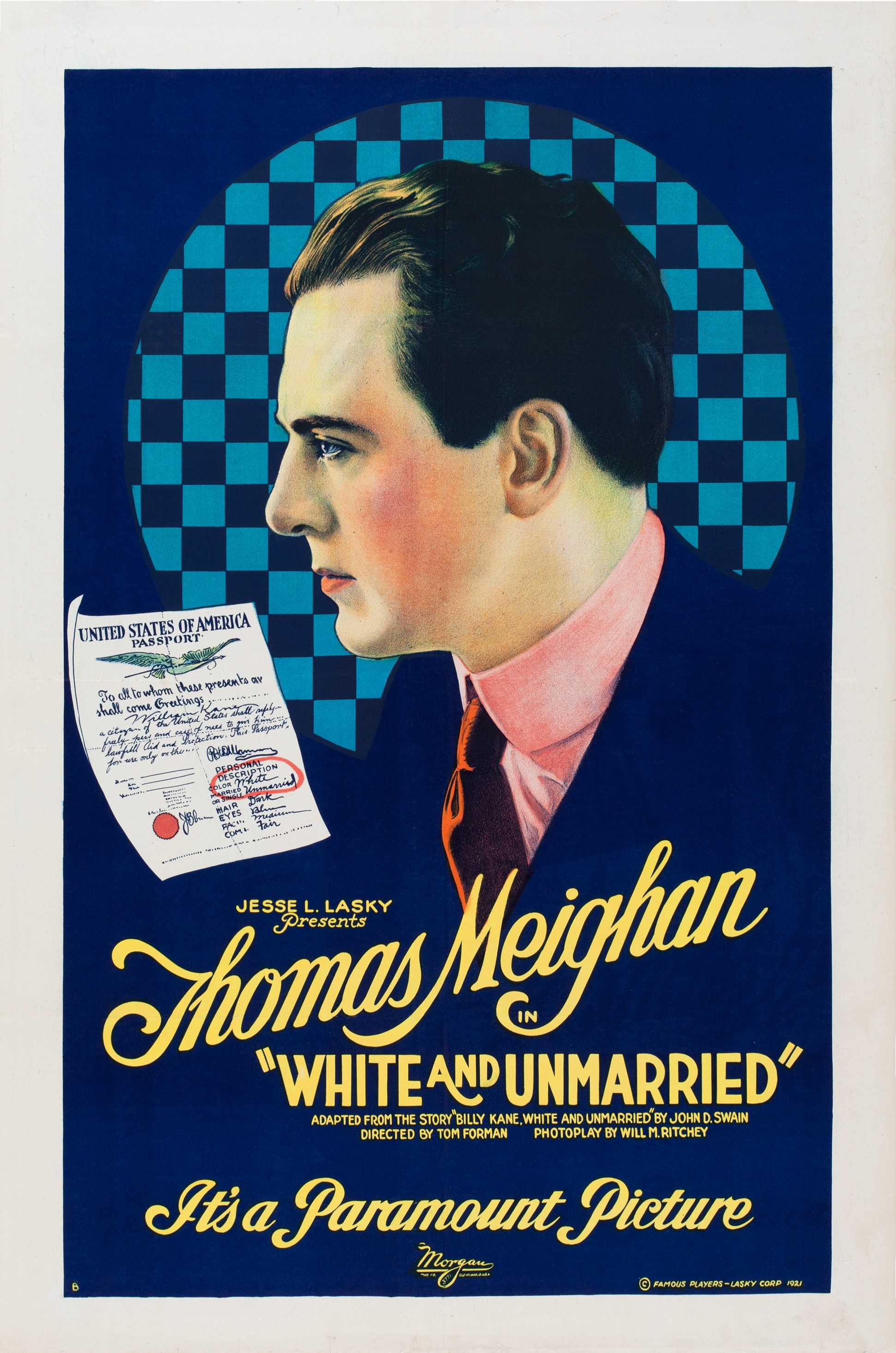 Poster for the American comedy film White and Unmarried (1921) with Thomas Meighan.